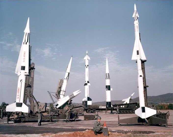 Army_family_missiles. From left, MIM-14 Nike Hercules, MIM-23 Hawk (front), MGM-29 Sergeant (back), LIM-49 Spartan, MGM-31 Pershing, MGM-18 Lacrosse, MIM-3 Nike Ajax.